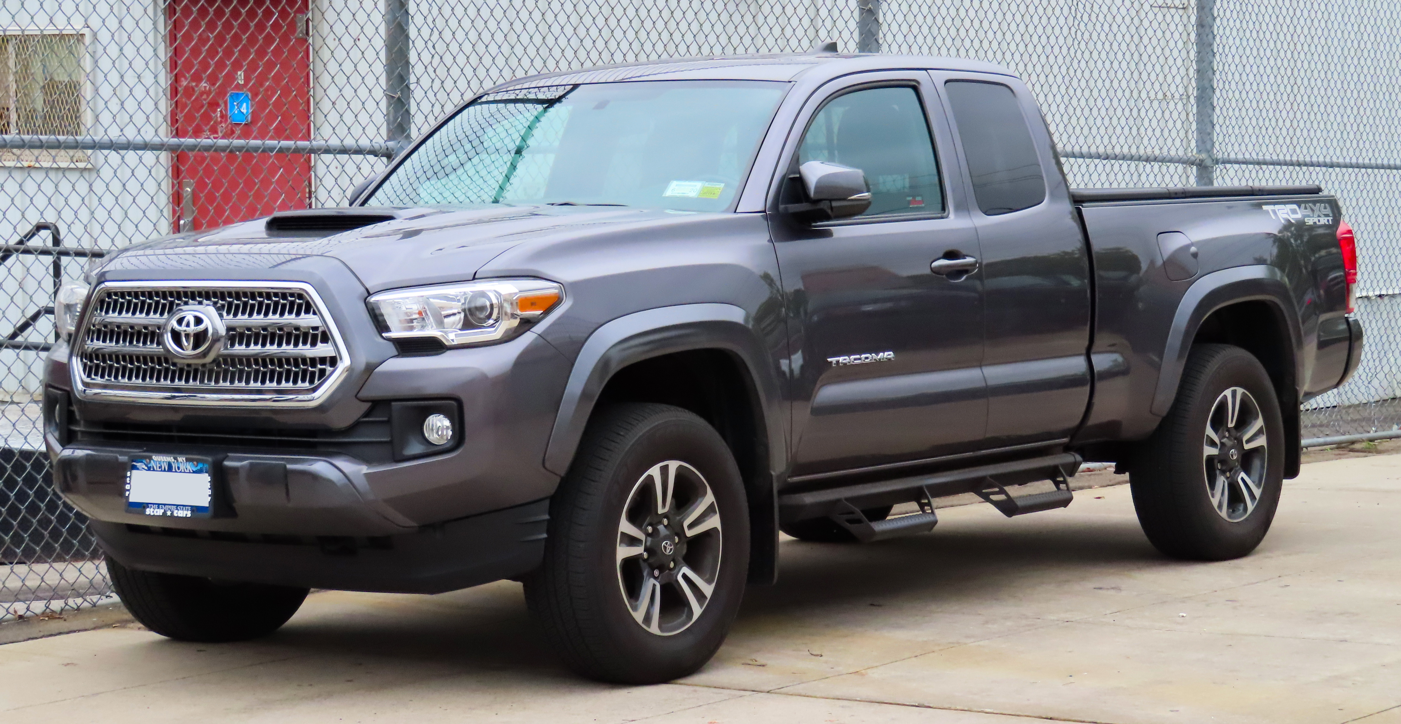 A 2016 Toyota Tacoma TRD Sport photographed in Francis Lewis High School parking lot, Queens, New York, USA